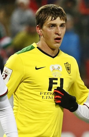 Pylyp Budkivskiy